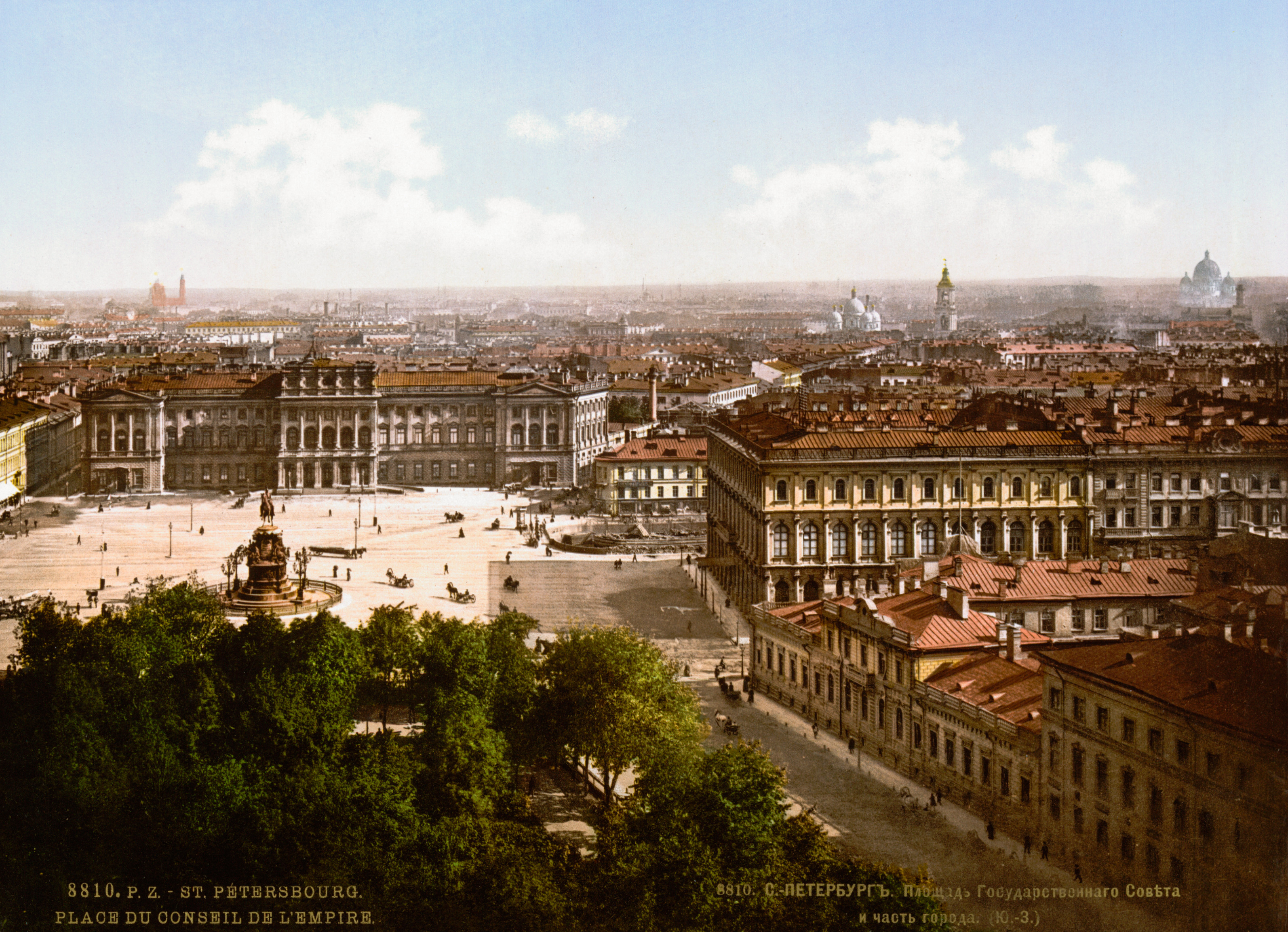 Place of the Imperial Council, West Side, St. Petersburg, Russia